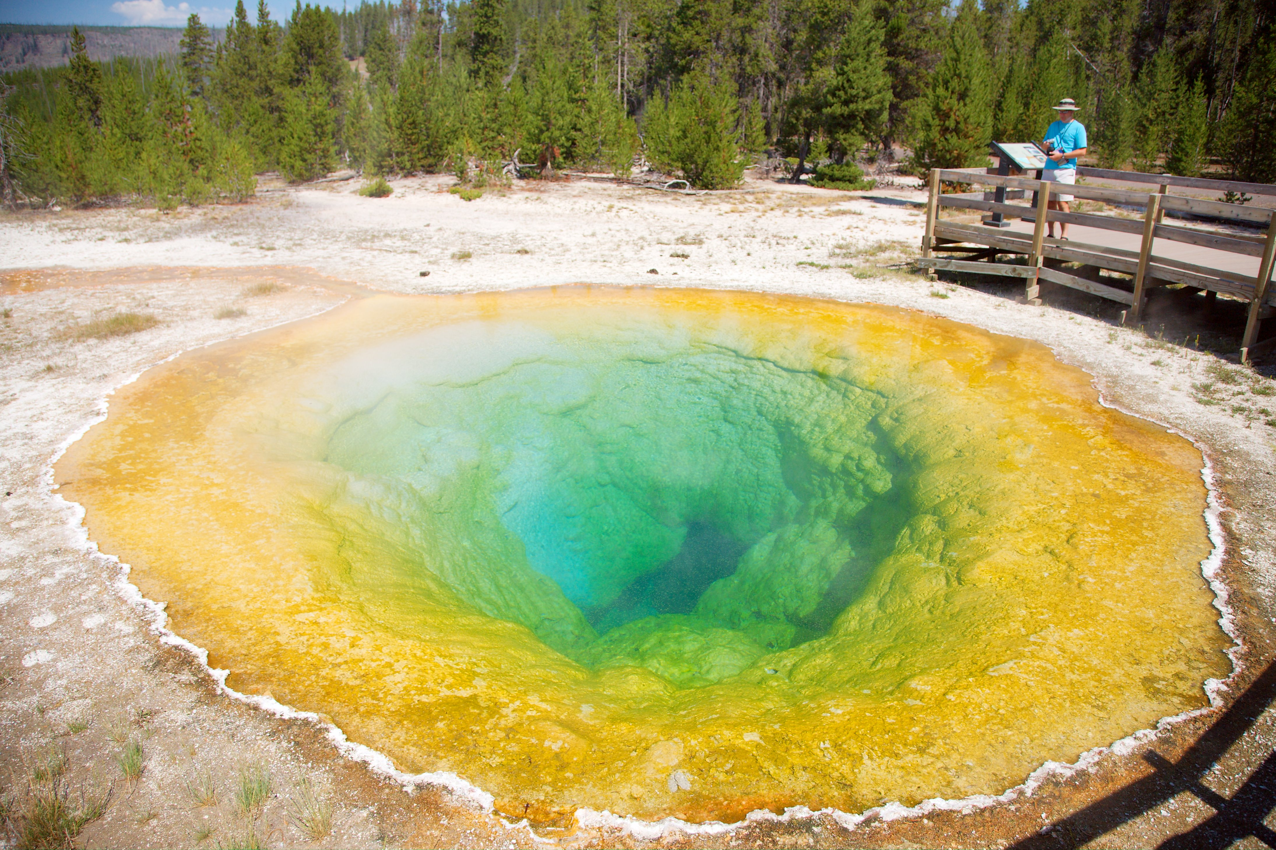 Morning Glory Pool in Yellowstone National Park